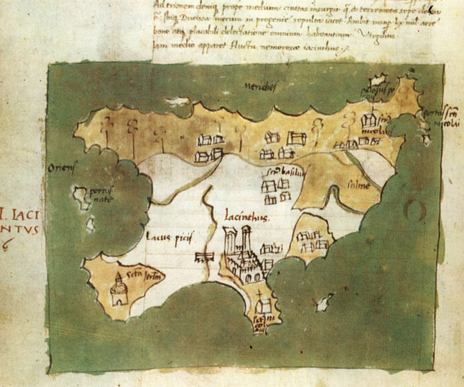 Cristoforo Buondelmonti, Liber Insularum Archipelagi (1420), Zakynthos island, Ionian Sea